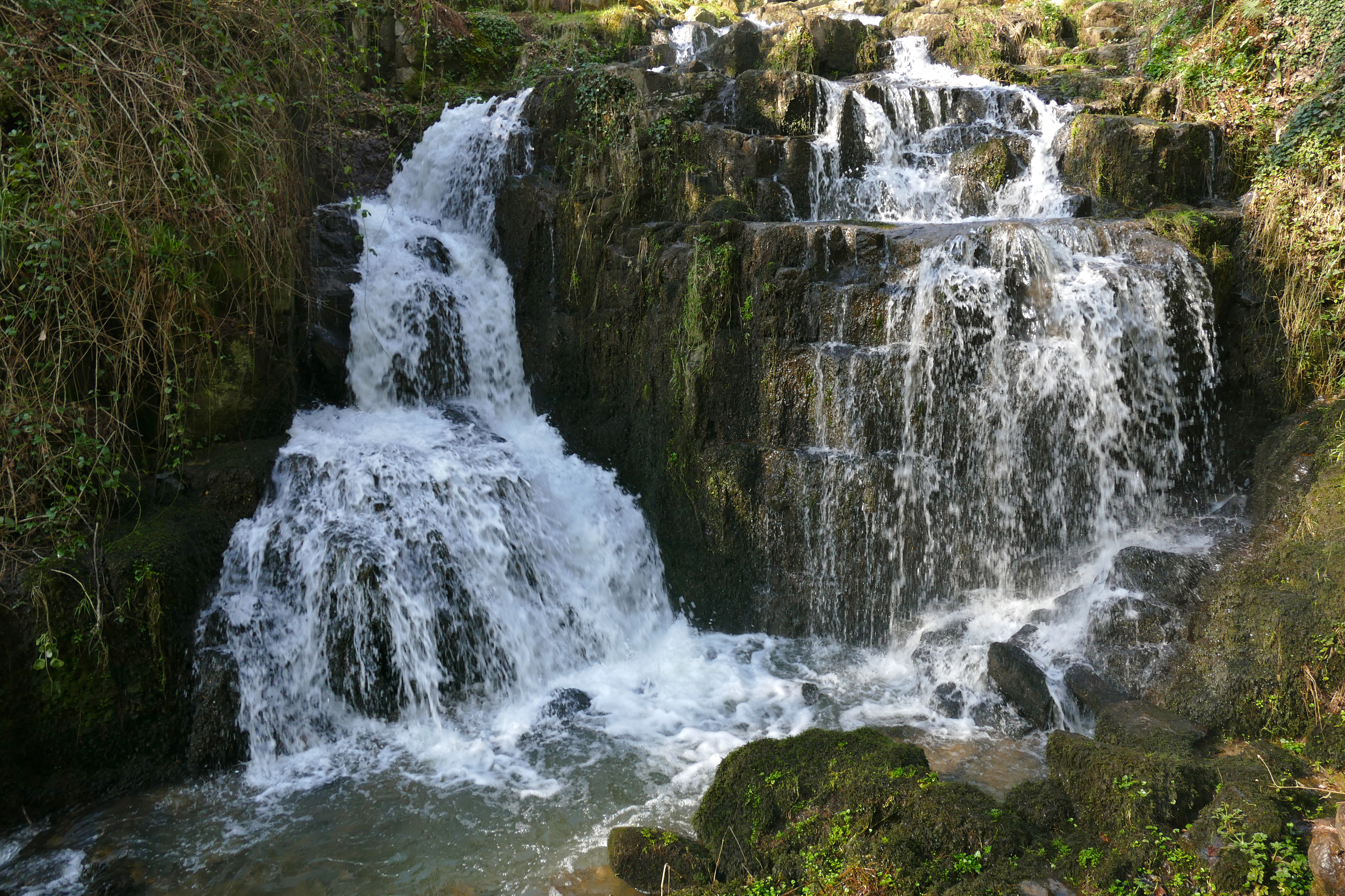 Mortain, Manche, FRANCE